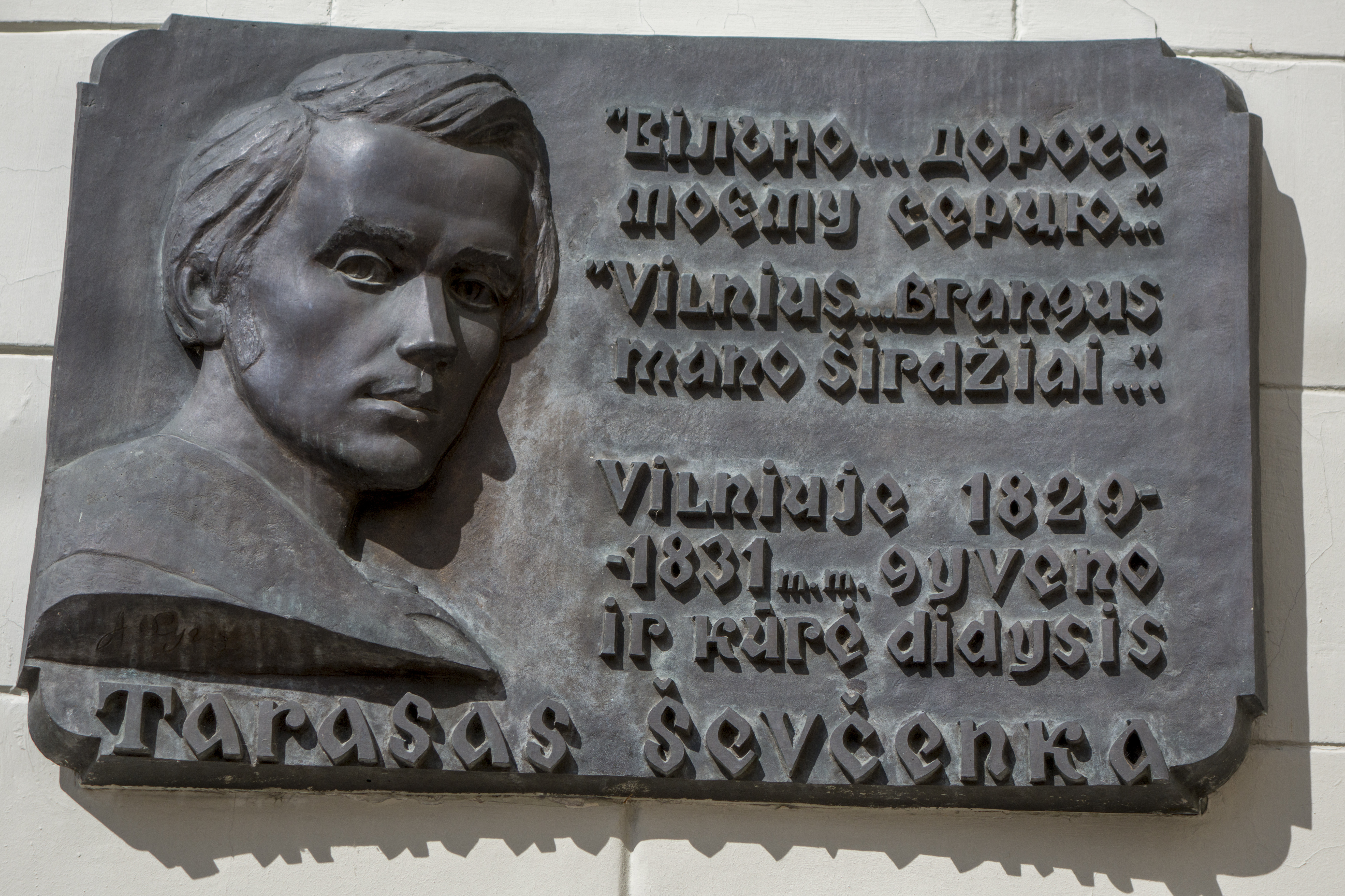 The plaque in memory of Taras Shevchenko in the Vilnius University